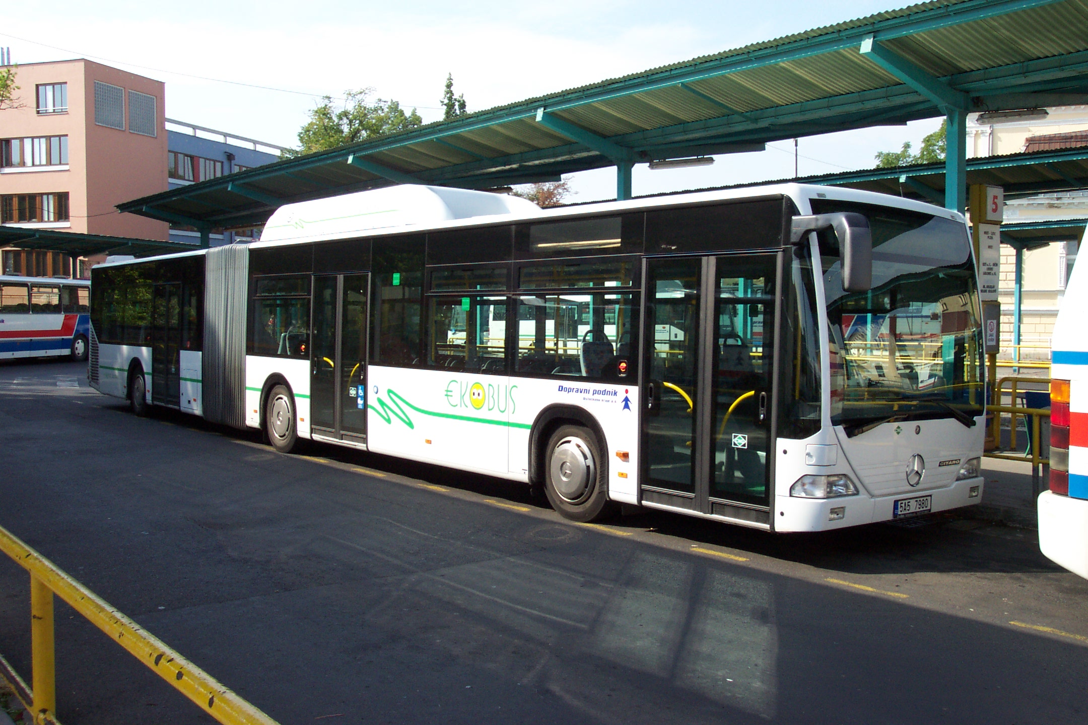 Teplice, Czech republic, bus type Citaro CNG at central bus sttation - autobus typu Citaro s pohonem na stlačený plyn na ÚAN